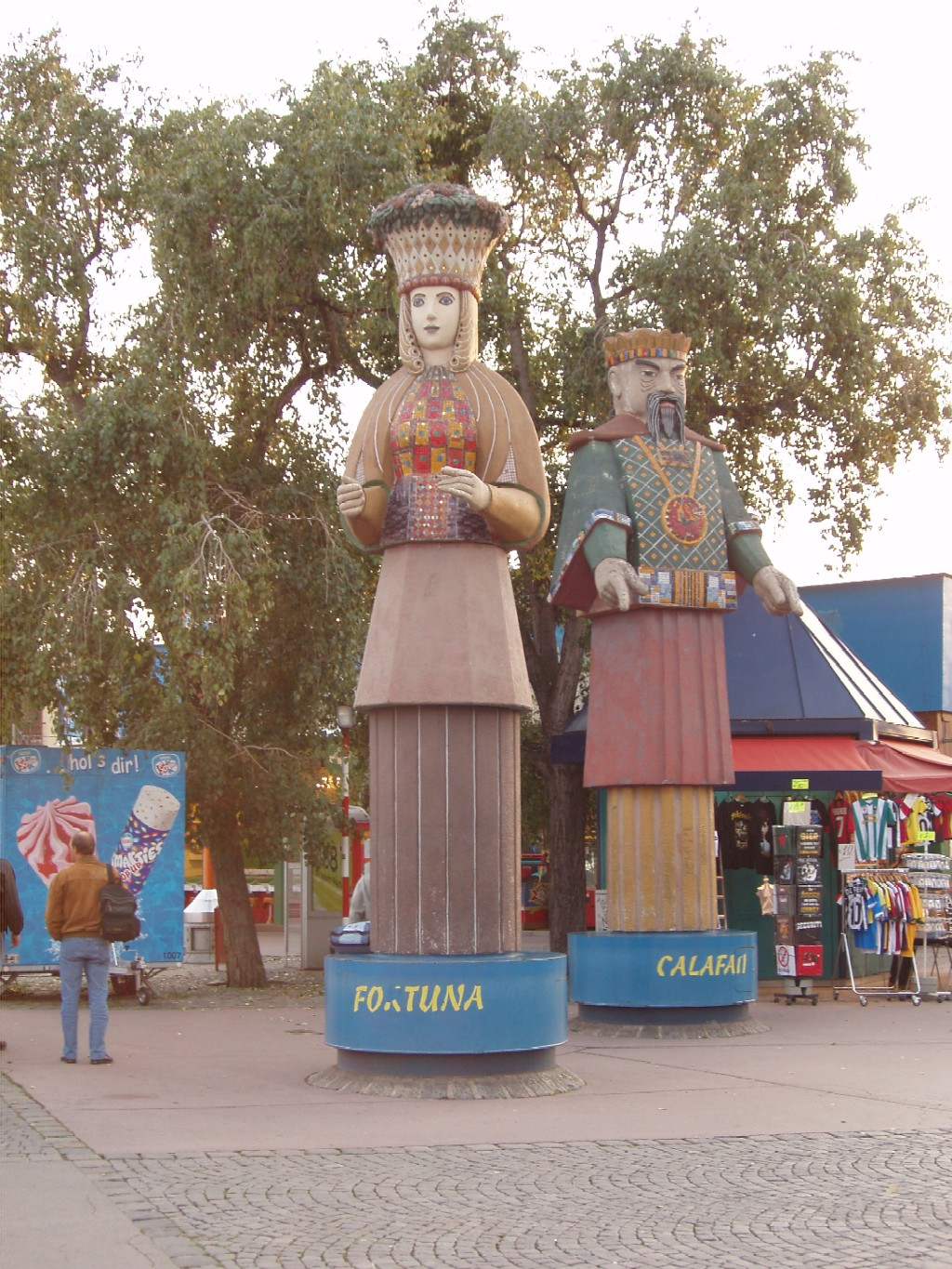 The Figures from Mr. Calafati in Vienna Prater